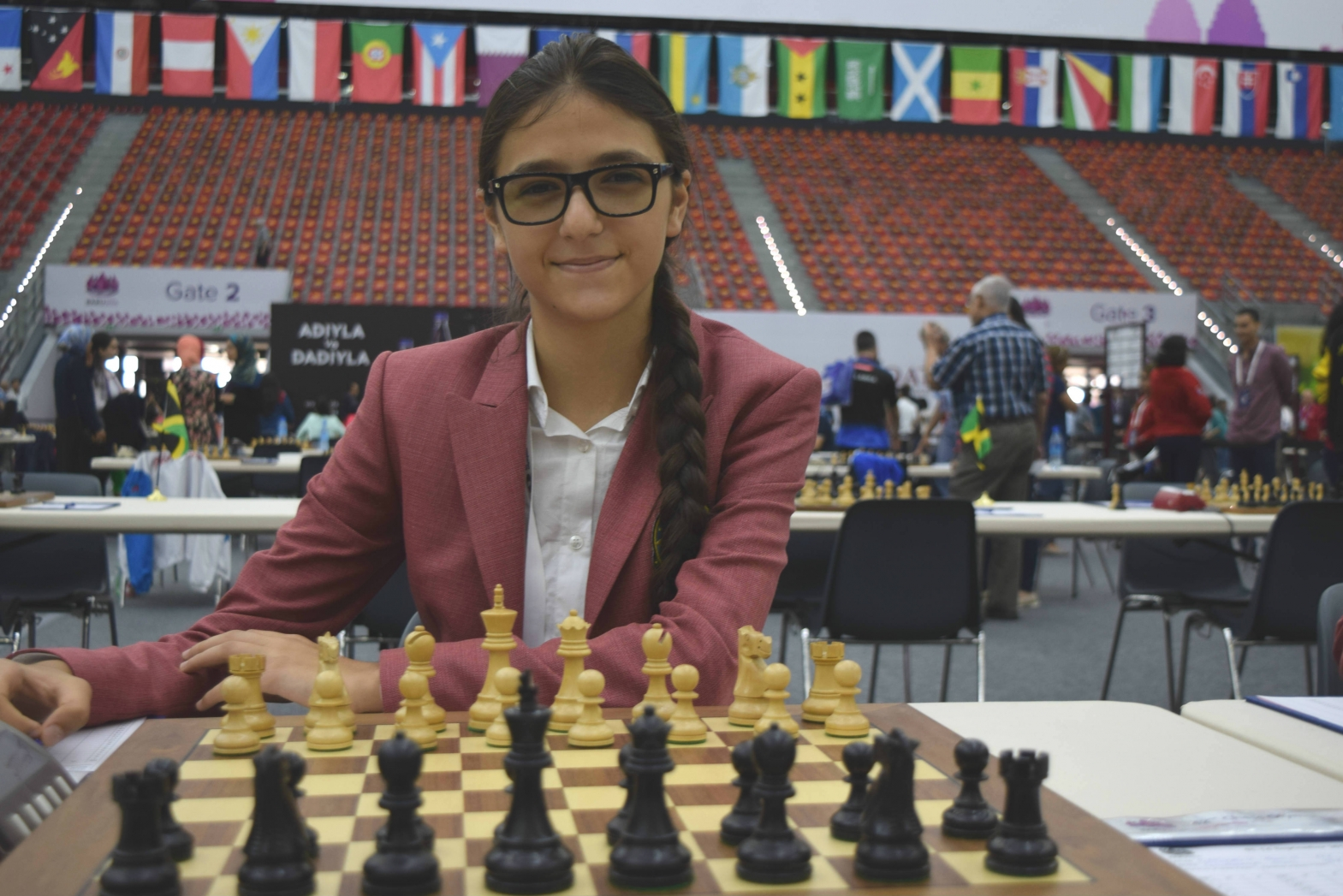 Khanim Balajayeva in 2016 Baku Chess Olympiad